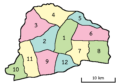 Subdistricts of Chaturaphak Phiman